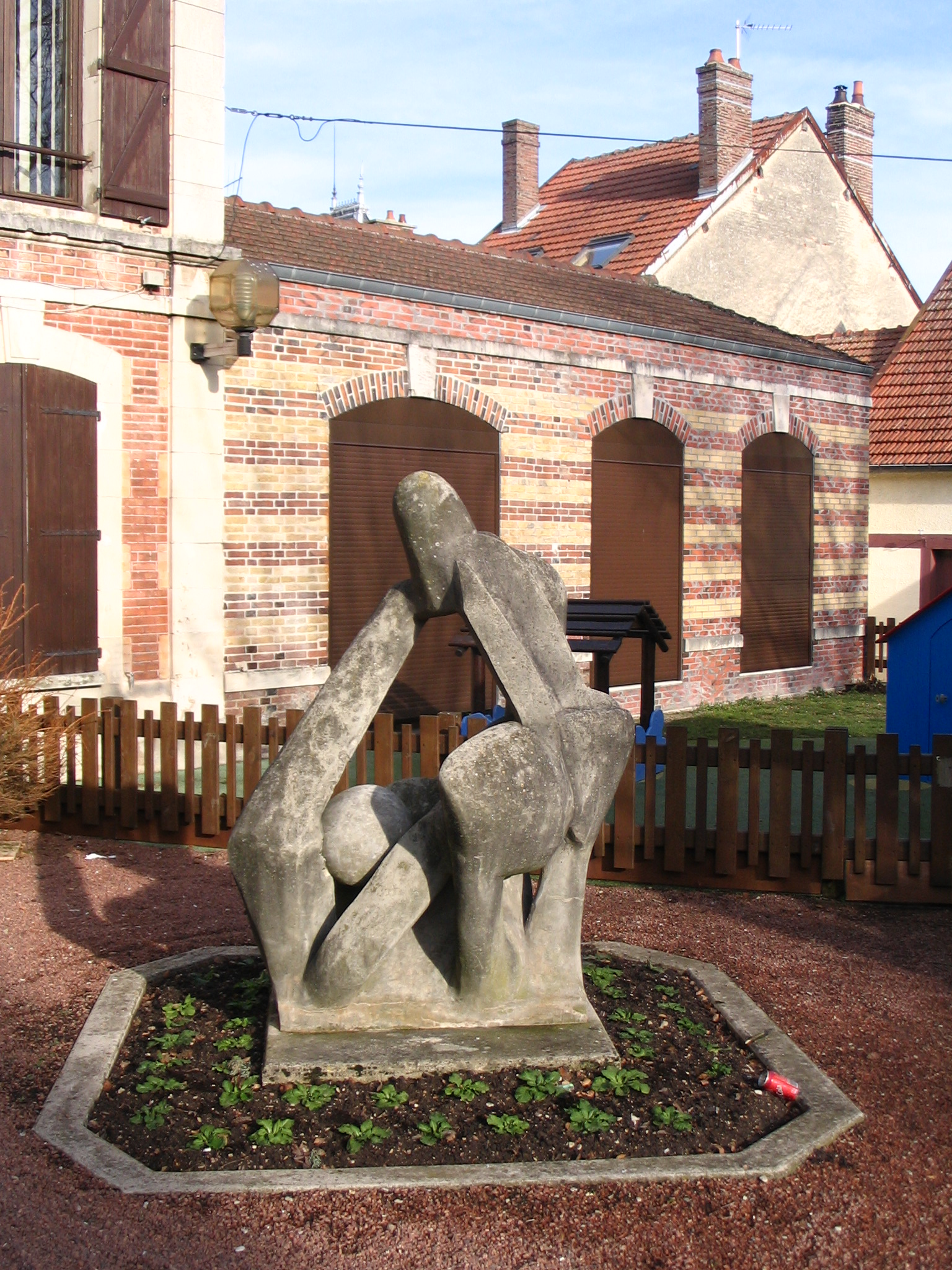 A sculpture by M. Favaudon, in Romilly-sur-Seine, Aube, France.